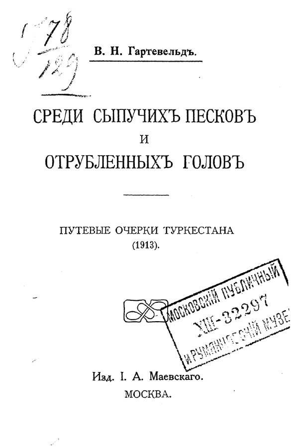 This image is book cover from Russian language book "Среди сыпучих песков и отрубленных голов (Путевые очерки Туркестана)", first time published in Moscow in 1913 by I.A. Maevskogo publishing house